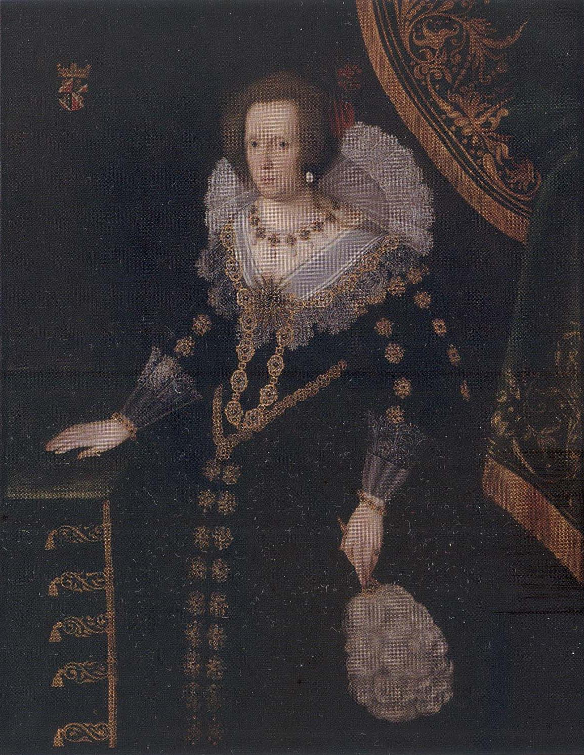 Sofia Johansdotter Gyllenhielm (1556/59 - 1583), extramarital daughter of King John III of Sweden